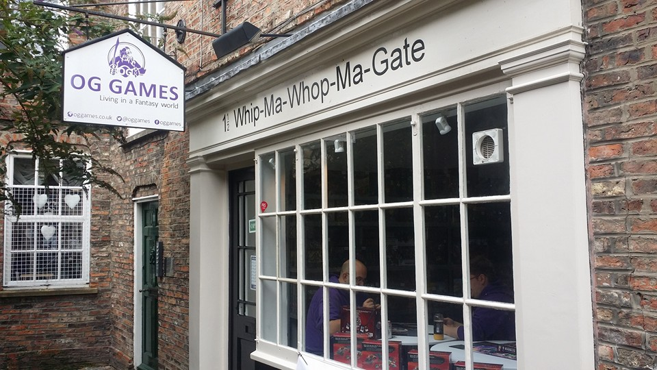 1½ Whip-Ma-Whop-Ma-Gate